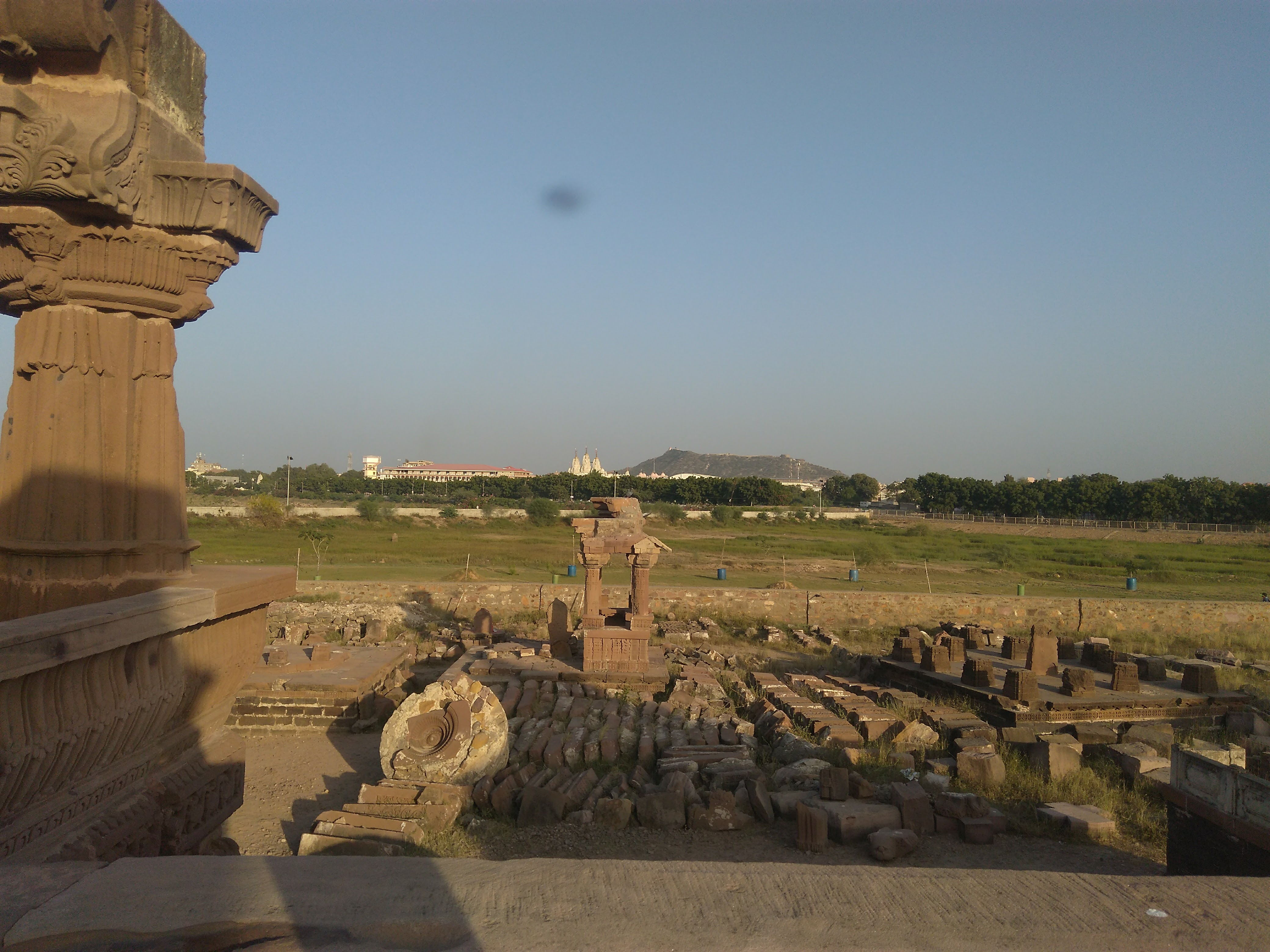 Chhatedi